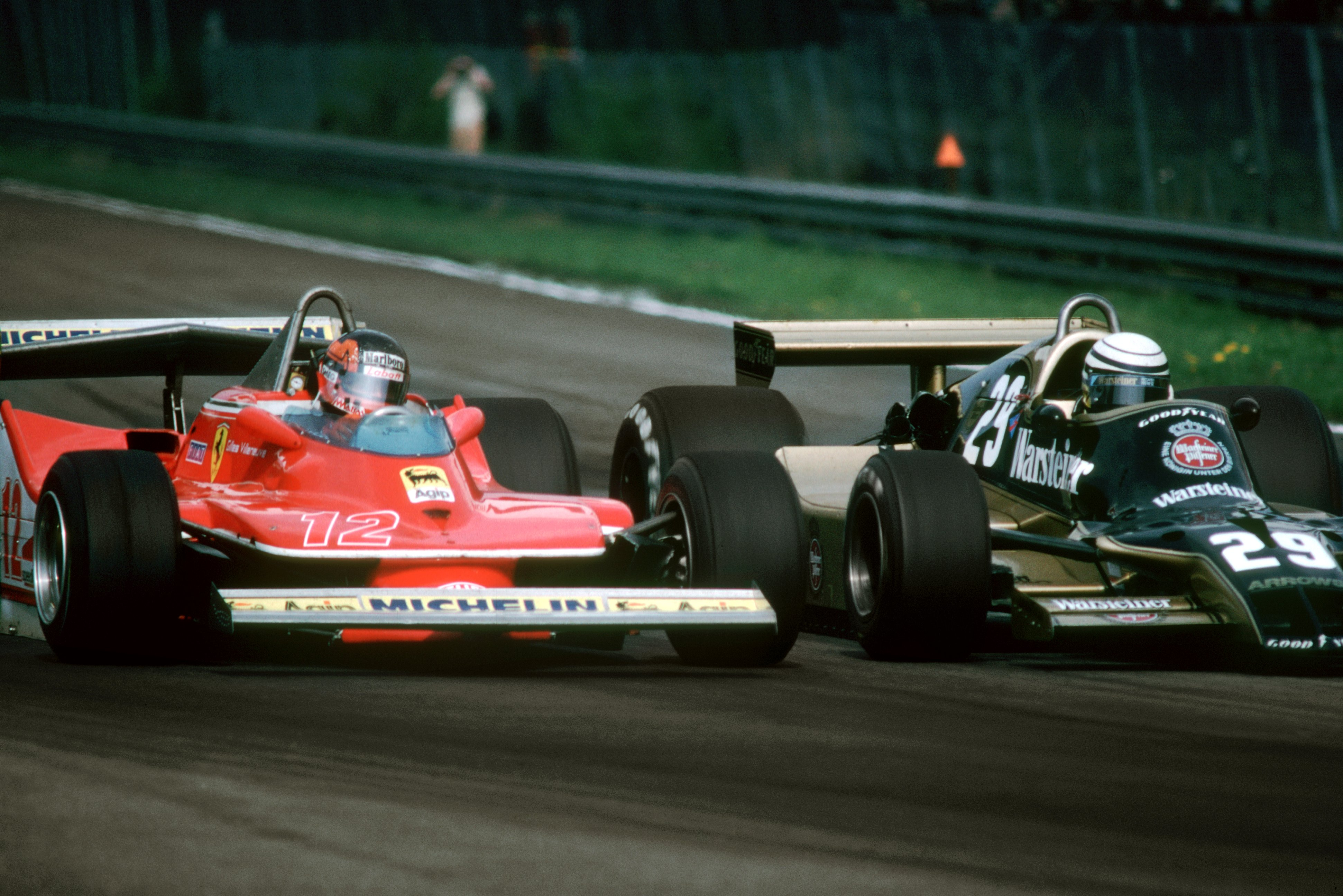 Seventh placed Gilles Villeneuve (CDN) Ferrari 312T4, who ran out of fuel on the final lap of the race, attempts to overtake the obstructive Riccardo Patrese (ITA) Arrows A1, who finished in fifth position